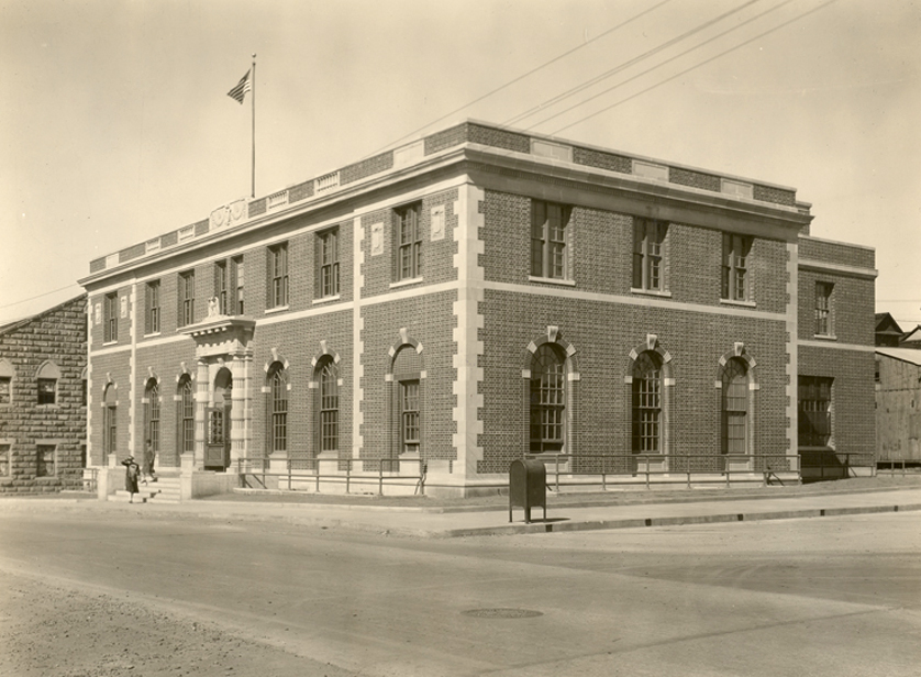 U.S. Post Office and Courthouse (1928), Globe, Arizona FJC Historic Federal Courthouses Completed in 1928. Supervising Architect: James A. Wetmore Building used by the U.S. District Court for the District of Arizona. Still in use as a post office.